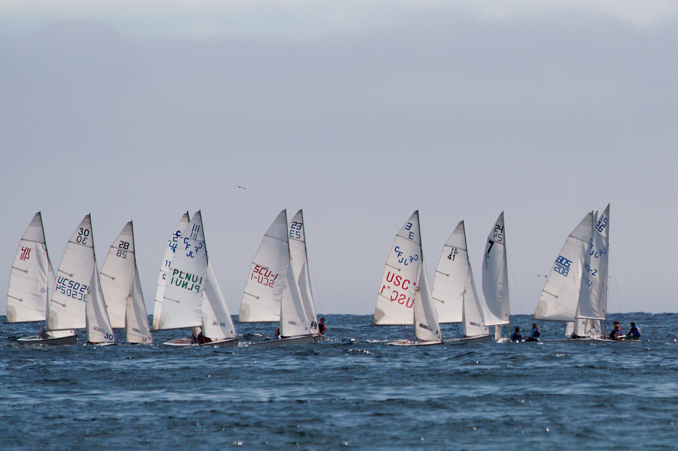 Sailboats on the Pacific Ocean, Santa Barbara, California At least several of the boats are CFJ ("Club Flying Junior) dinghies